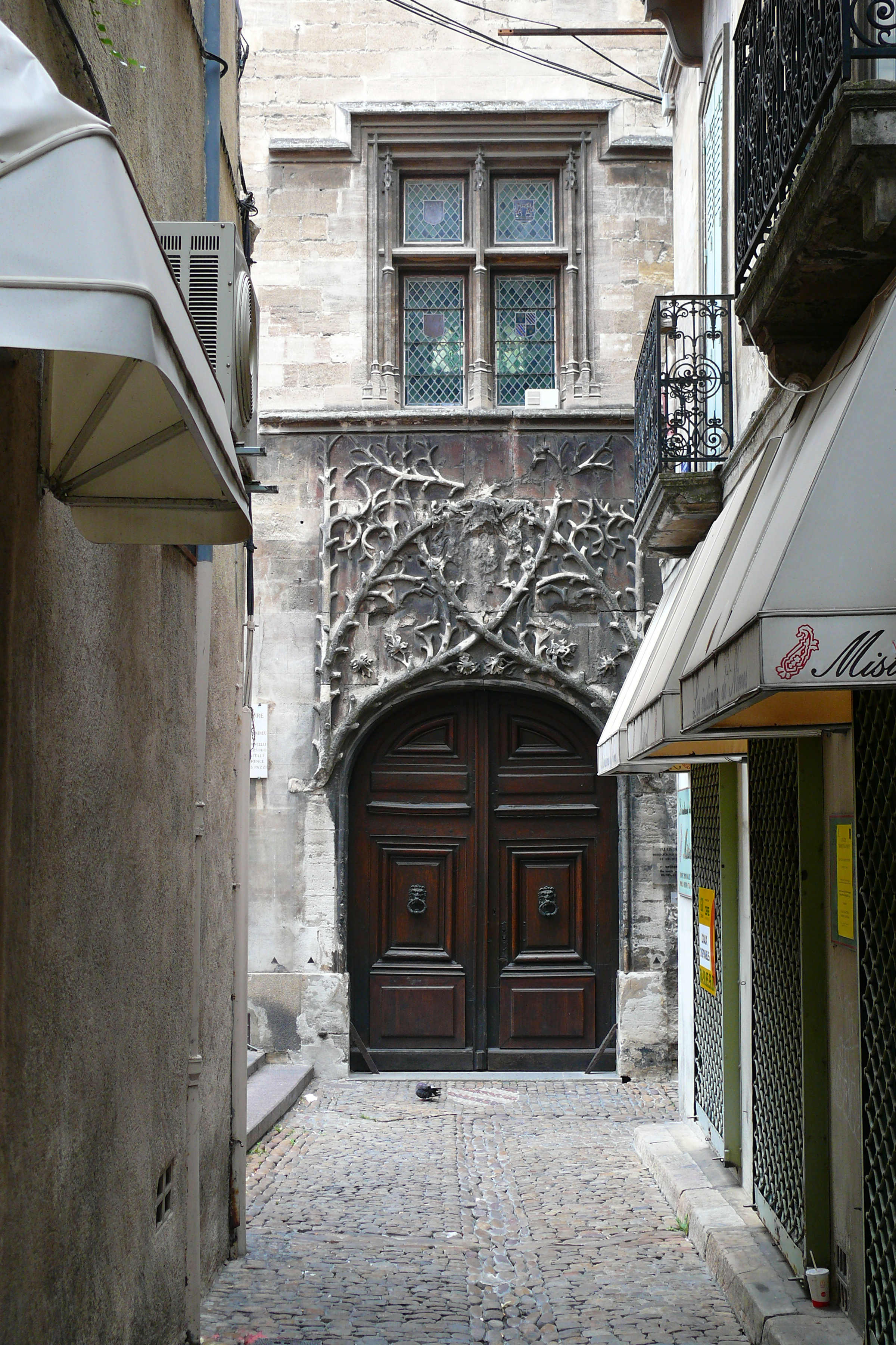 Palais du Roure main entrance, Avignon, France